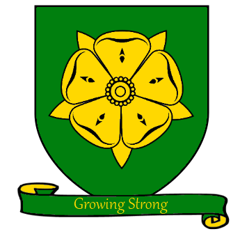 A fictional coat of arms. The coat of arms of House Tyrell. Shows a golden rose on a green field. Underneath is a scroll bearing a motto: Growing Strong The following Commons images were used to create this image: File:Old French Escutcheon.svg by Masur (talk · contribs) File:Coat-elements-2.png by Qyd (talk · contribs) (scroll on bottom) File:Coa Illustration Elements Plant Rose v2.svg by Madboy74 (talk · contribs)